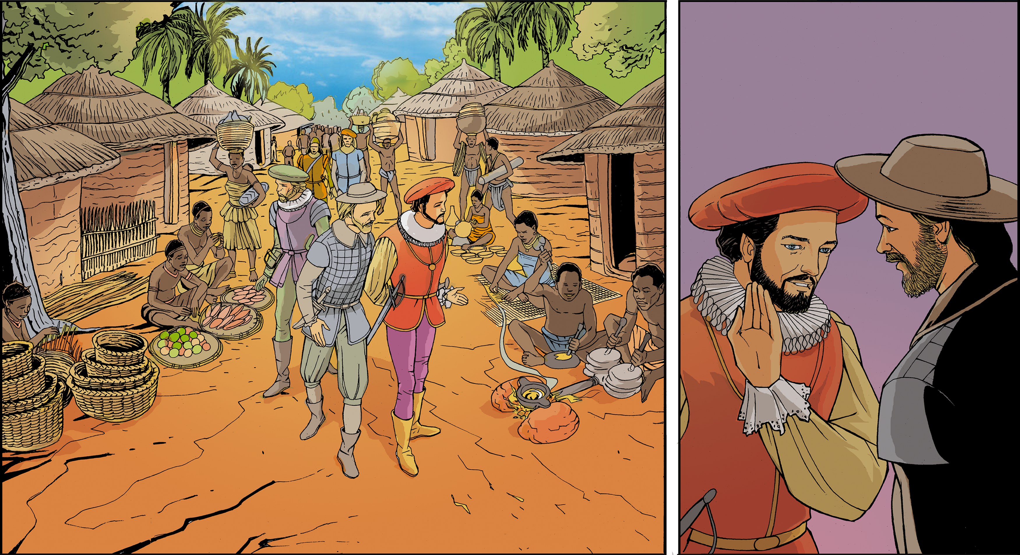 Taken from Nzinga Mbandi: Queen of Ndongo and Matamba from the UNESCO series on women in African history. Illustrations by Pat Masioni